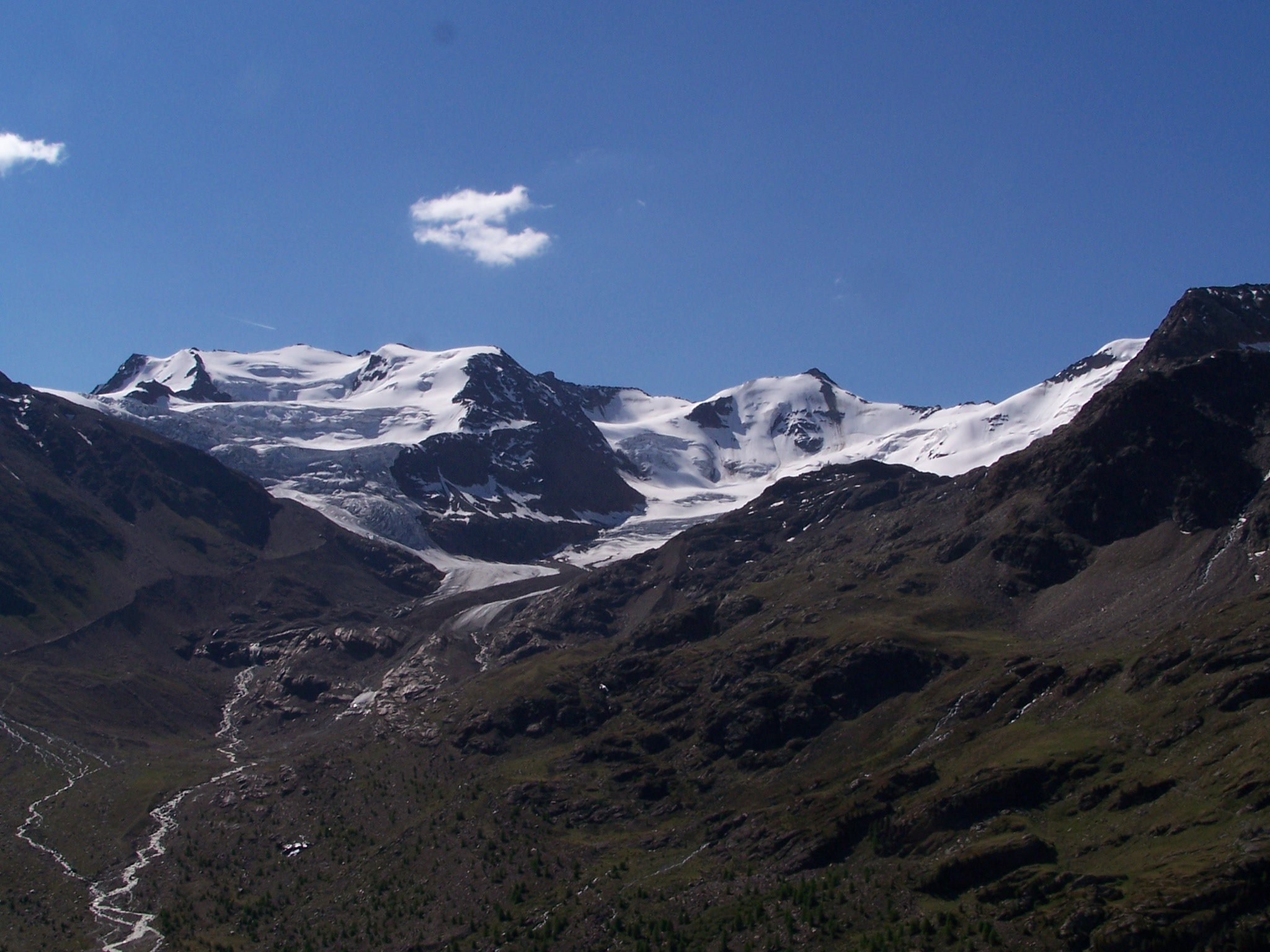 Desription: Forni Glacier with Punta Taviela (left) and Punta Cadini, Valtellina, Alps summer 2005 Source: Own picture. Author: User:marcobarci